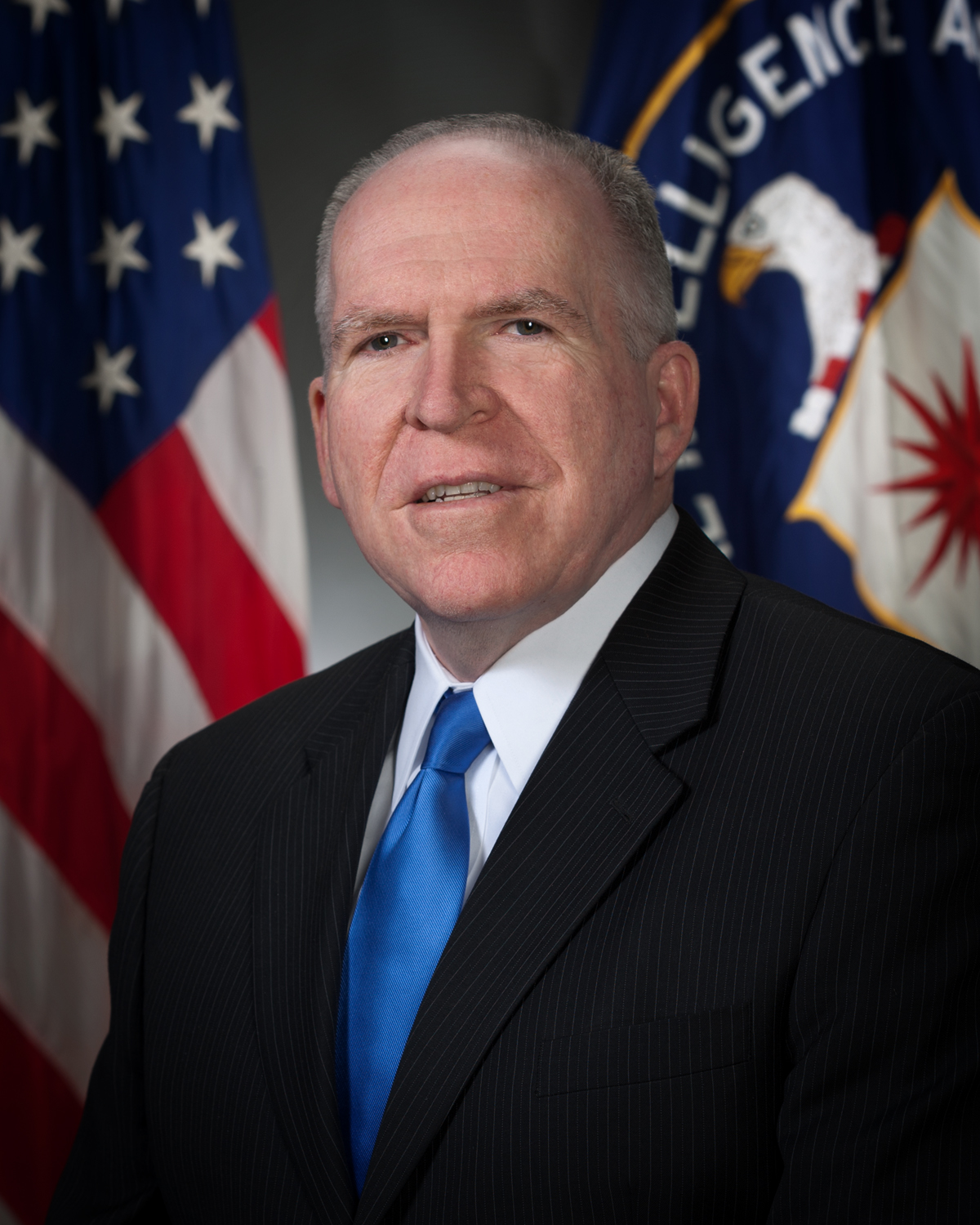 CIAs official portait of John Brennan